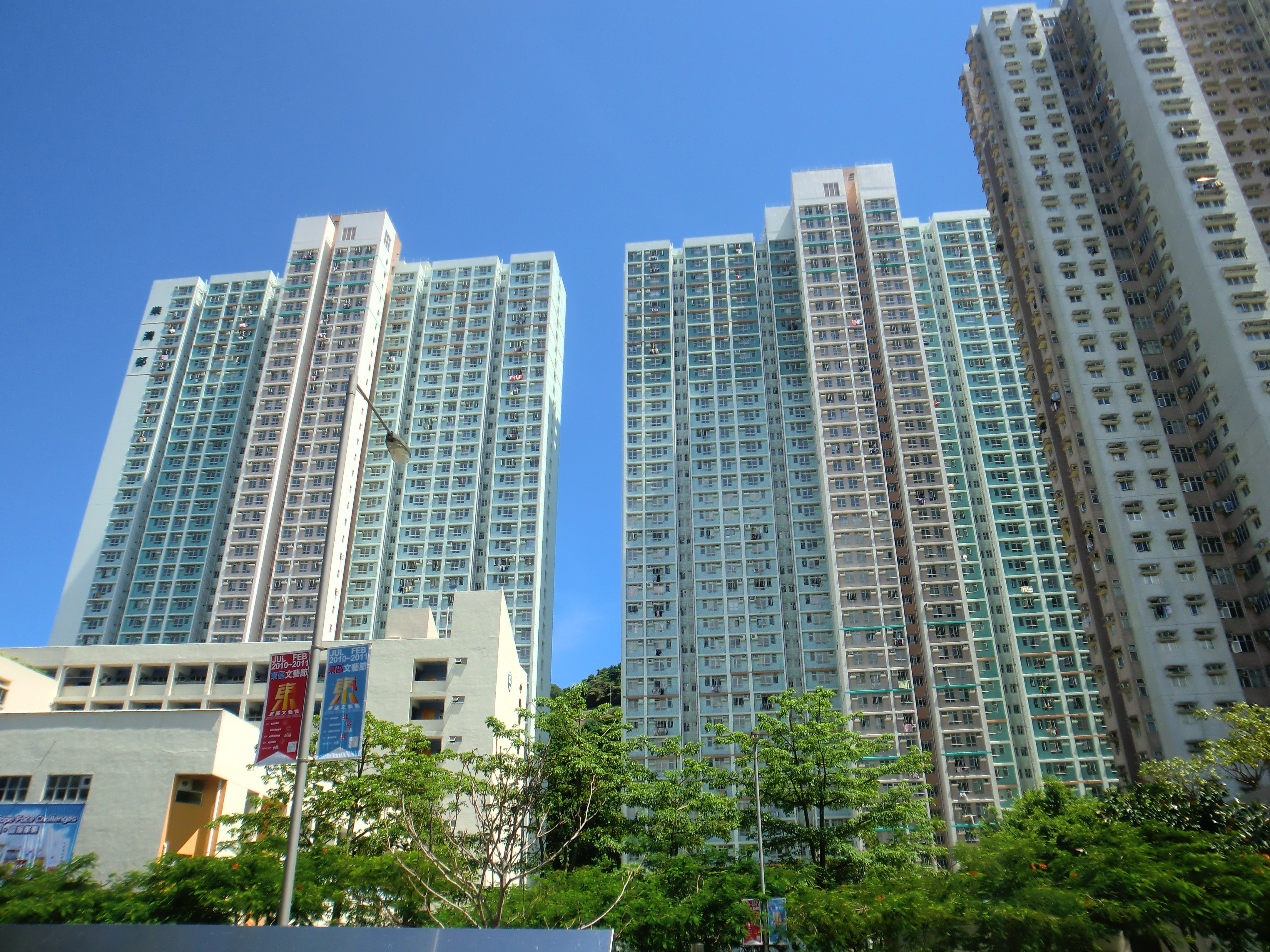 Chai Wan Estate Overall View in 2010.